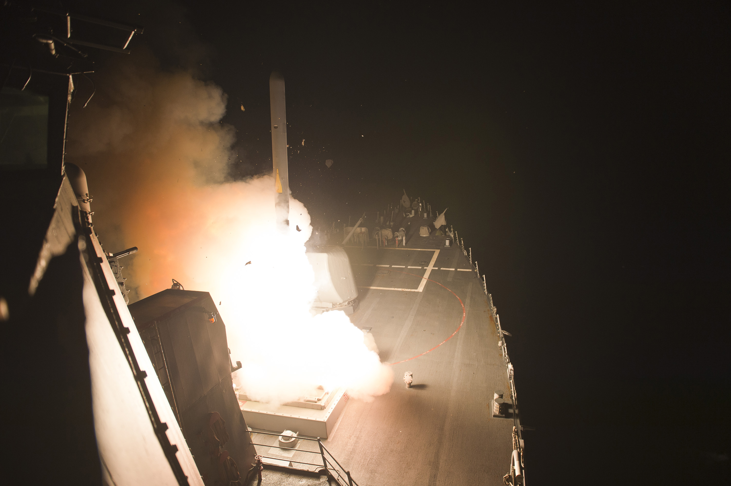 The U.S. Navy guided-missile destroyer USS Arleigh Burke (DDG-51) launches RGM-109 Tomahawk cruise missiles. On 23 September 2014, 47 Tomahawk missiles were fired by Arleigh Burke and USS Philippine Sea (CG-58), which were operating from international waters in the Red Sea and Persian Gulf, against Islamic State of Iraq and the Levant (ISIL) targets in Syria in the vicinity of Ar-Raqqah, Deir ez-Zor, Al-Hasakah and Al-Bukamal.